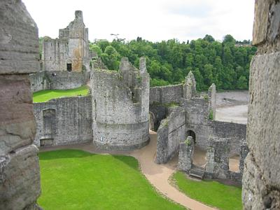 Chepstow Castle. Looking west showing construction.